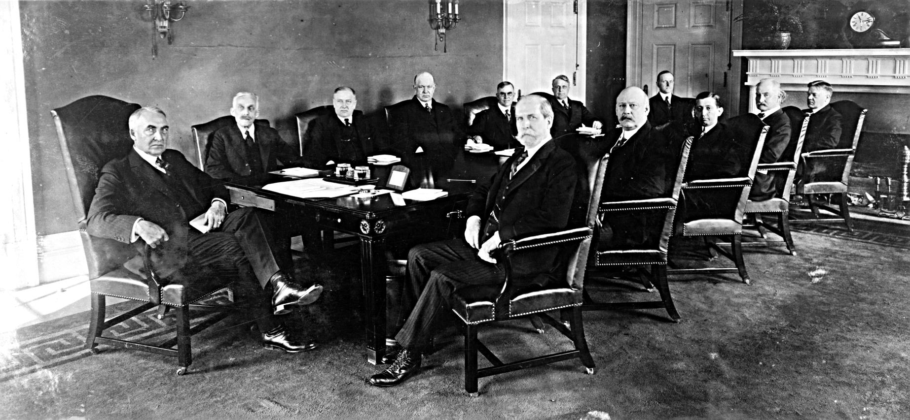 President Warren G. Harding's first cabinet meeting, 1921.